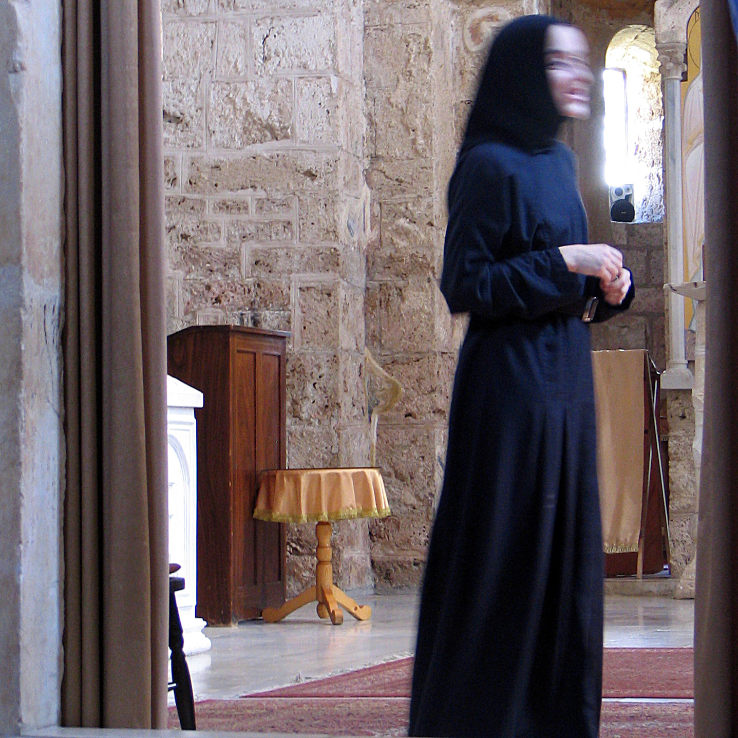 Nun in Gradac Serbian orthodox monastery